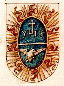 Emblem of the Order of Gesuati Friars, drawing from "Insegne di varii prencipi et case illustri d'Italia e altre provincie" (Módena, 1605)